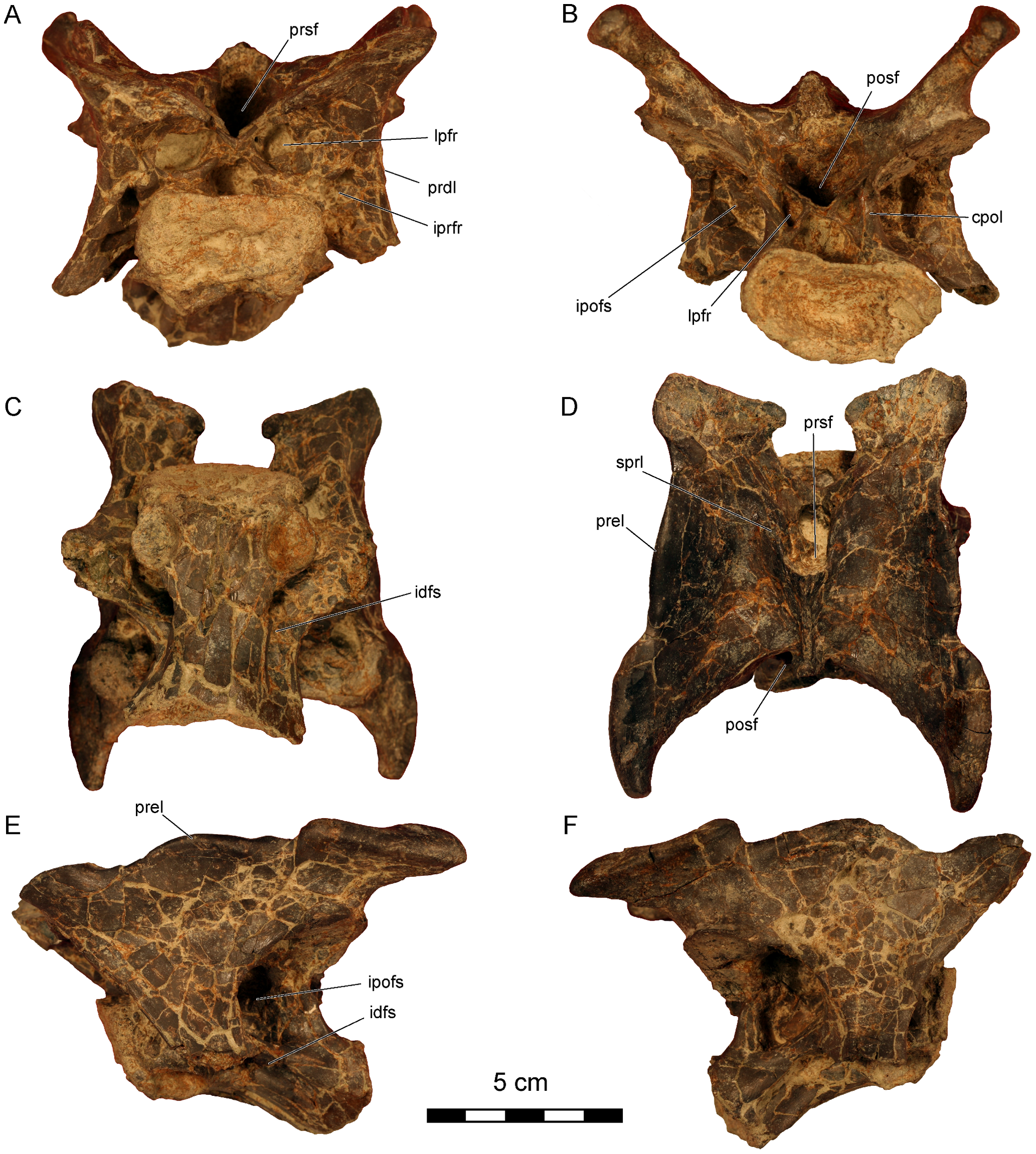 Dahalokely tokana holotype (UA 9855), ?fifth cervical (C?5) vertebra. Photographs in A, cranial; B, caudal; C, ventral; D, dorsal; E, left lateral; and F, right lateral views. Abbreviations: cpol, centropostzygapophyseal lamina; idfs, infradiapophyseal fossa; ipofs, infrapostzygapophyseal fossa; iprfr, infraprezygapophyseal foramen; lpfr, laminopeduncular foramen; posf, postspinal fossa; prdl, prezygodiapophyseal lamina; prel, prezygoepipophyseal lamina; prsf, prespinal fossa; sprl, spinoprezygapophyseal lamina.